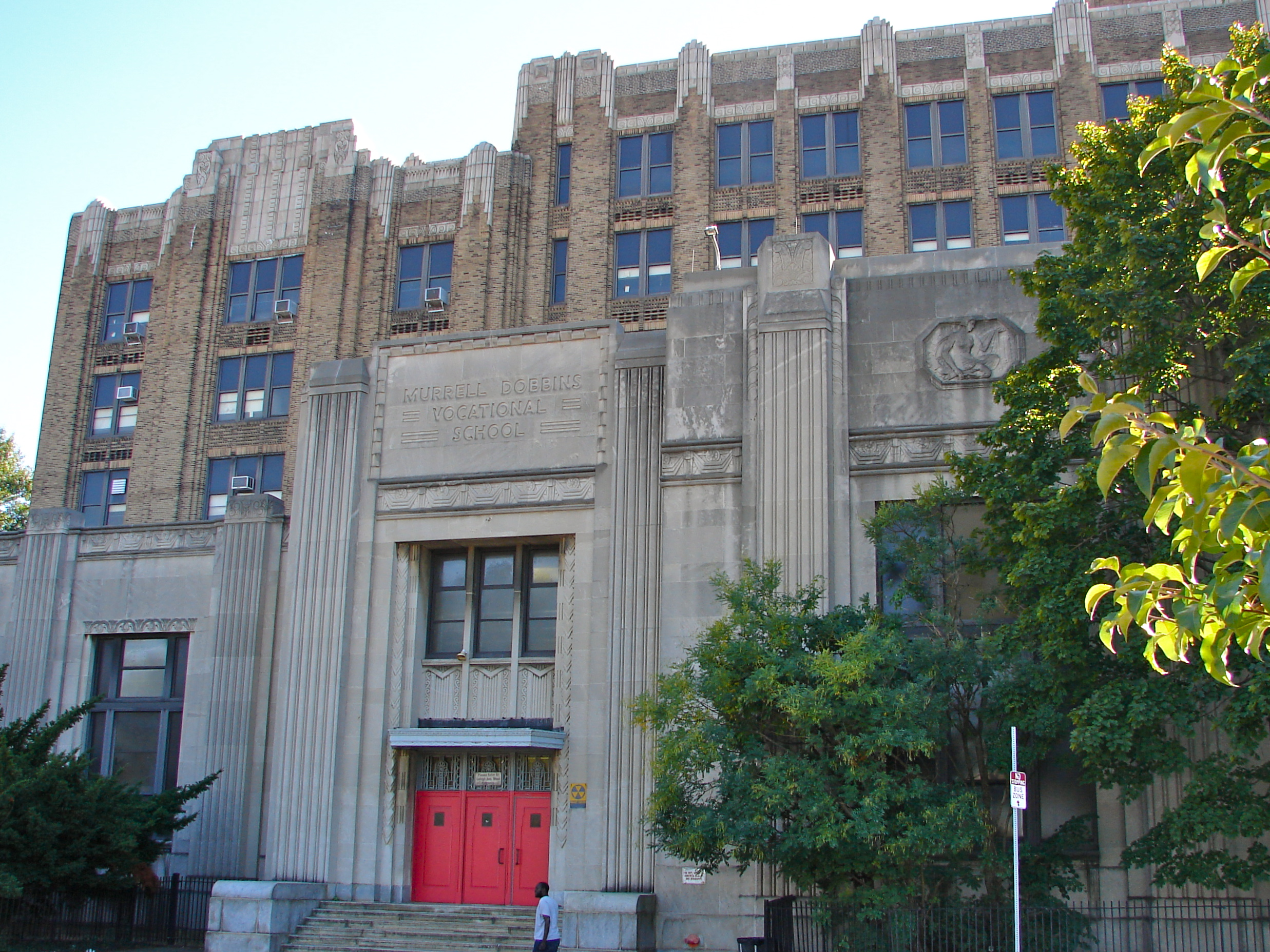 Murrell Dobbins Vocational School in Philadelphia on the NRHP since November 18, 1988. At 2100 Lehigh Ave. in the North Philly neighborhood of South Lehigh